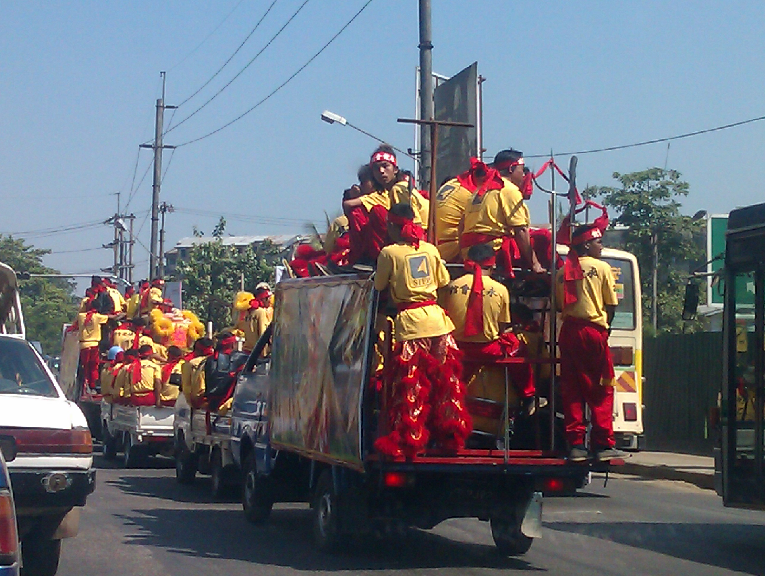 The Chinese New Year celebration tours around Yangon in 2012.